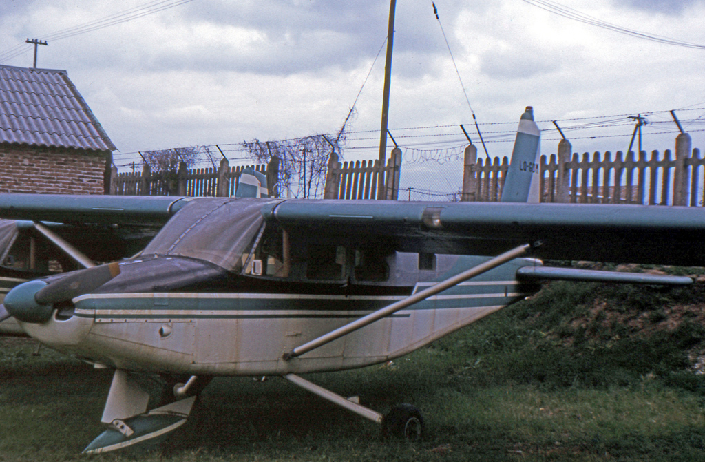 Lockheed CL402-2 LQ-GOM at Don Torcuato airfield near Buenos Aires in 1972